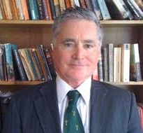 Picture of Benny Gaughran taken in 2012